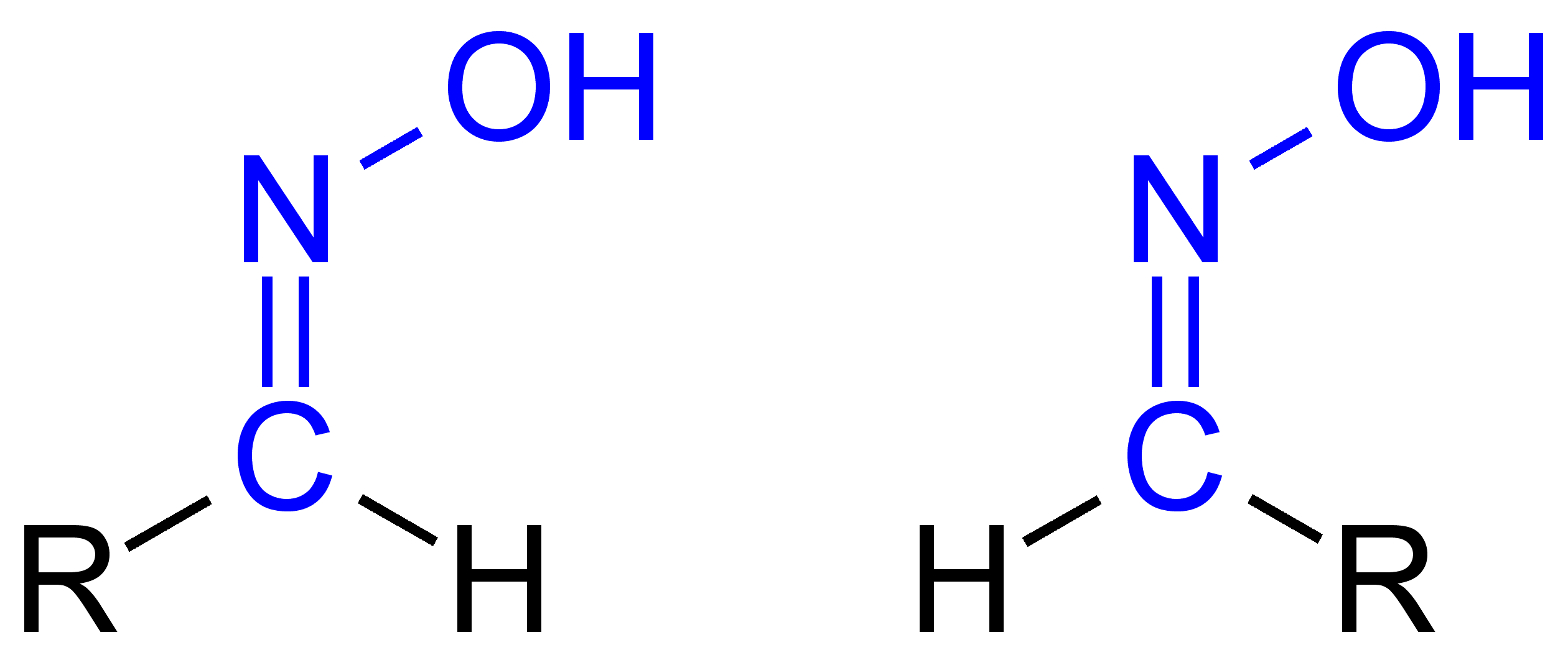 Aldoximes_General_Formulae